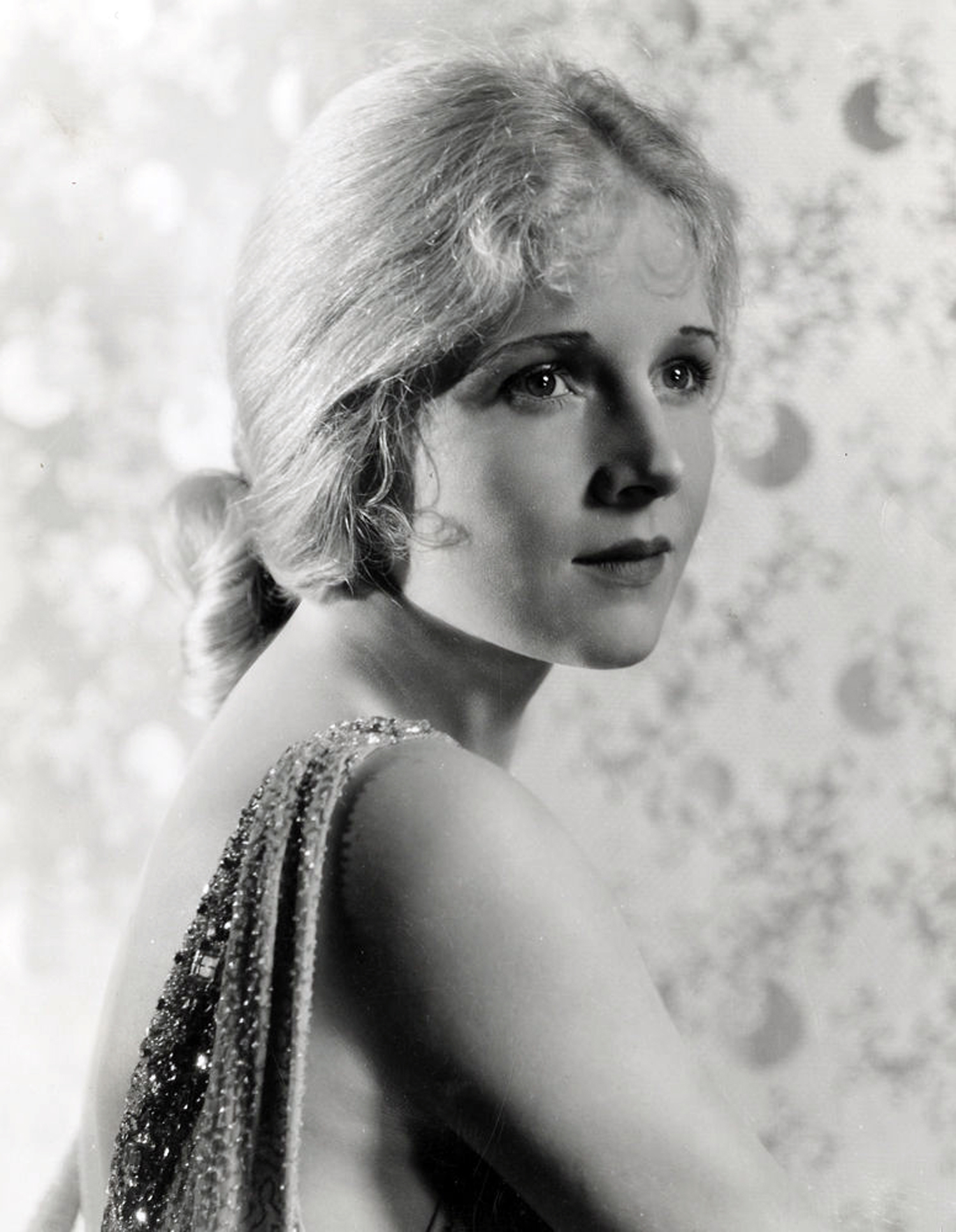 Ann Harding publicity photo, 1930